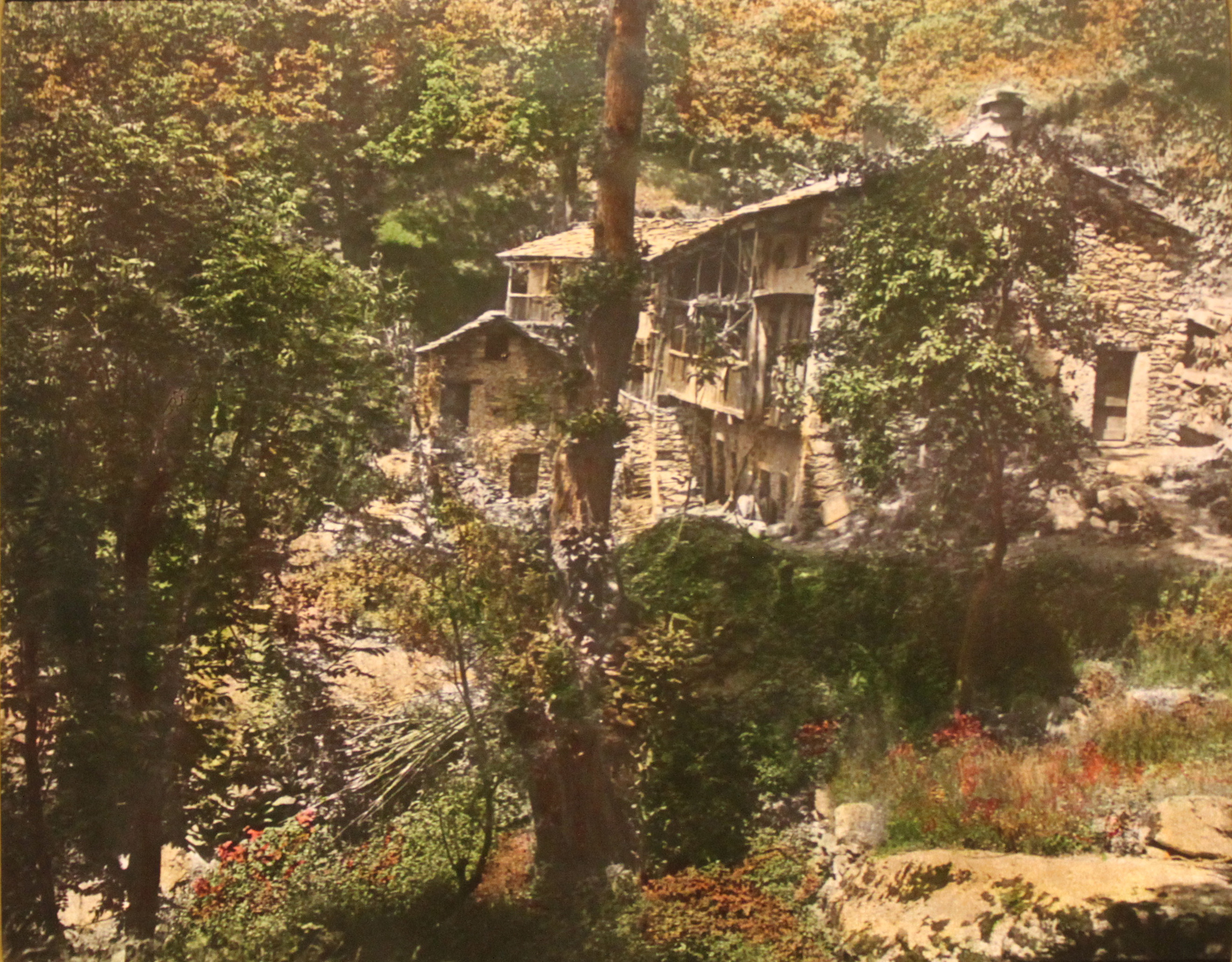 A mountain cottage in the Waldensian Valleys